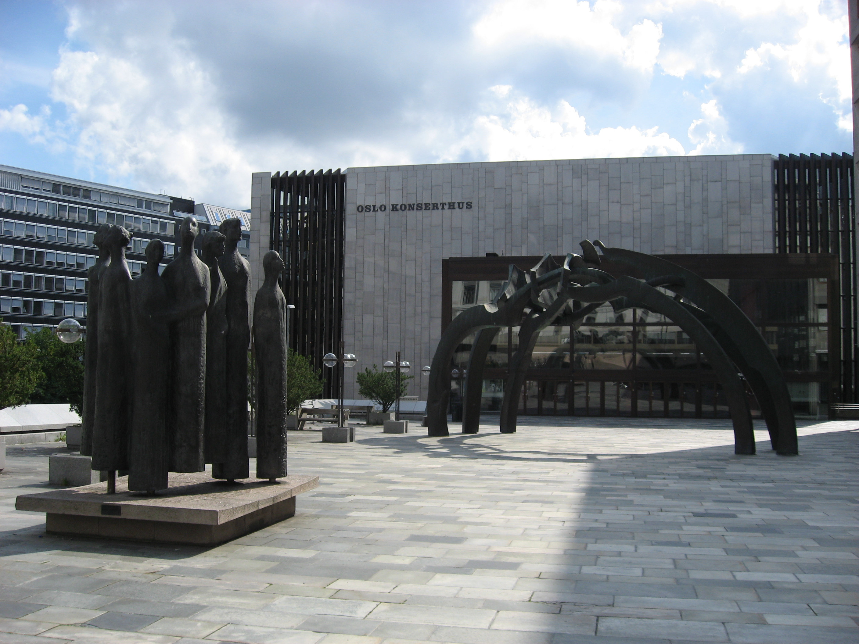 Oslo Konserthus - concert hall for the Oslo Philharmonic Orchestra)